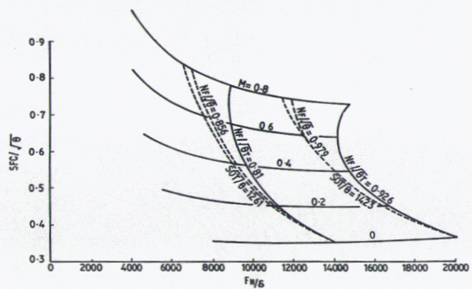 Author:Burbank Source:Self